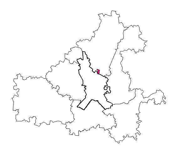 Municipalities of Yaroslavsky District. Lesnaya Polyana.